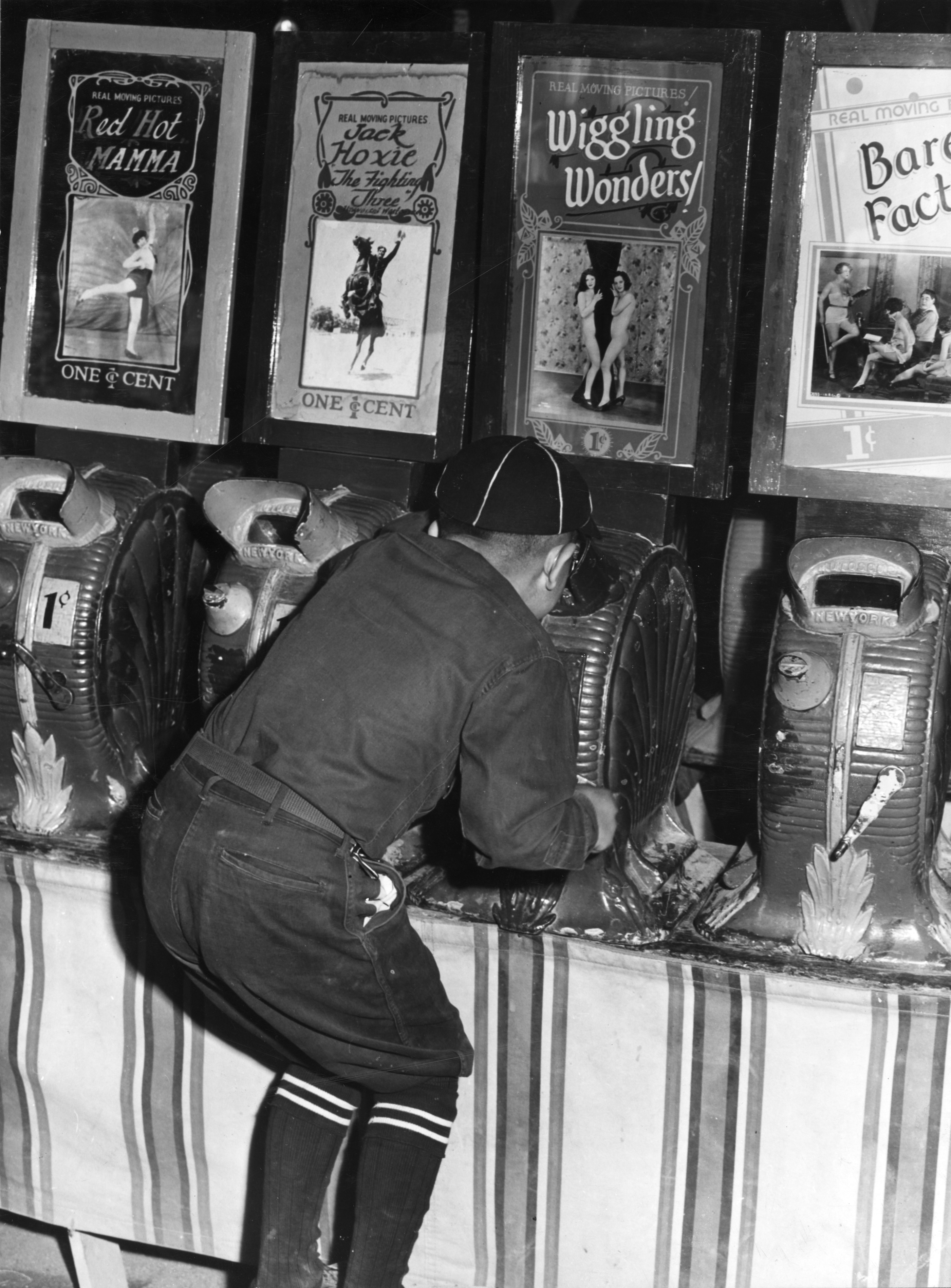 Carnival attraction at the Imperial County Fair, California. El Centro, California.